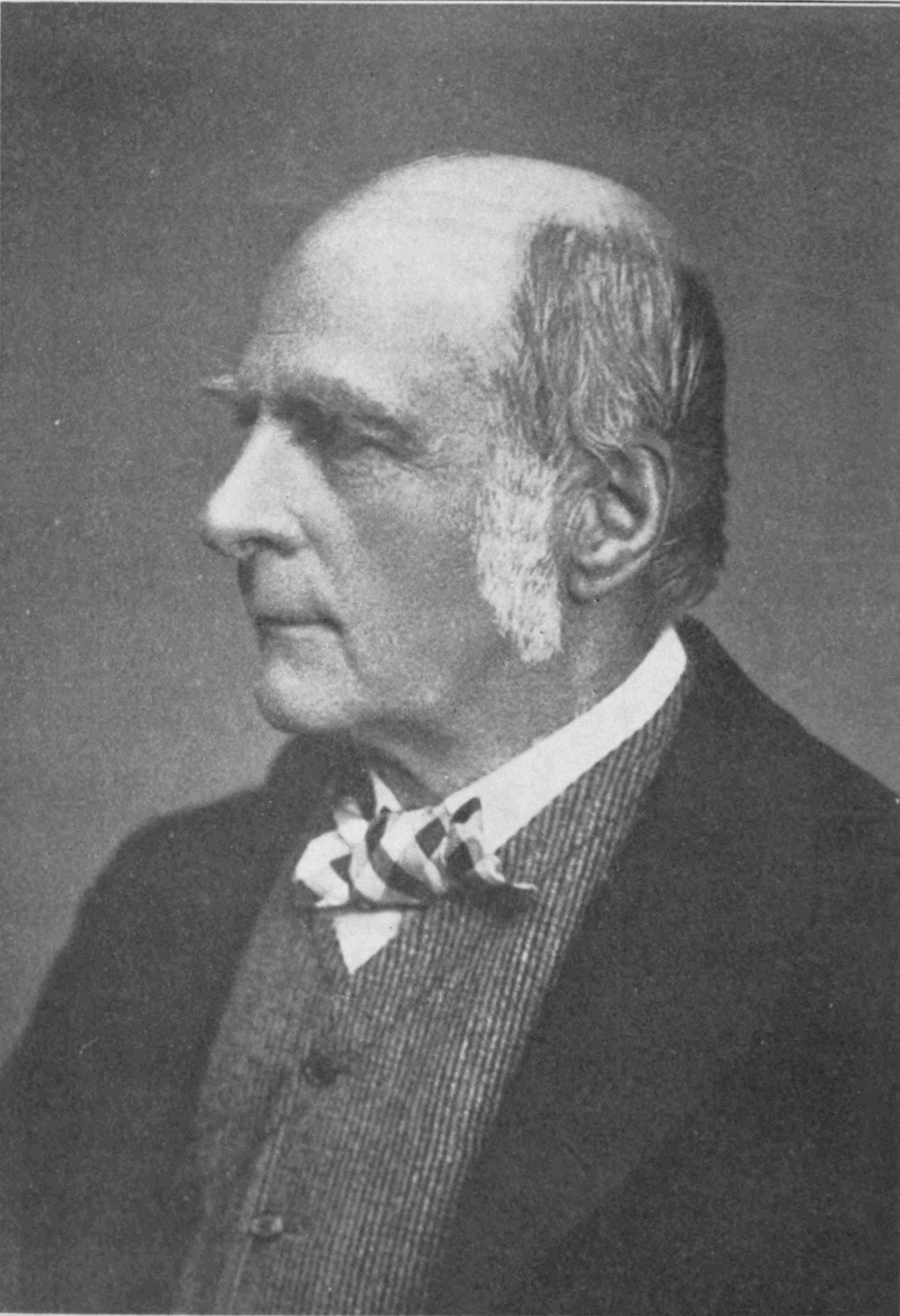 Francis Galton